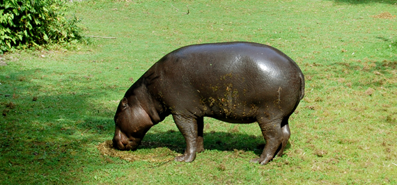 Minihippo at Eskilstuna Zoo.